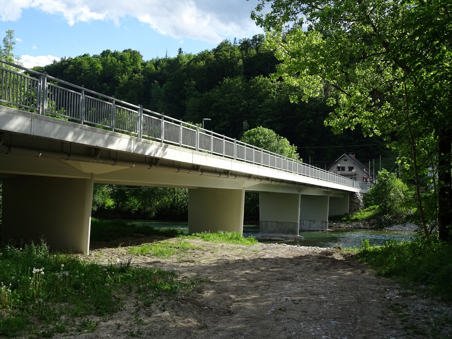 Bridge across the river Sava in Podnart